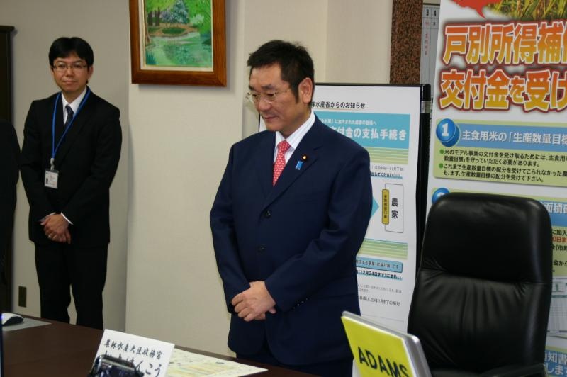 Kenko Matsuki, Parliamentary Secretary of Agriculture, Forestry and Fisheries, attended the ceremony at the Hokkaido Agriculture Office in Sapporo City, Hokkaidō on November 8, 2010. (For terms of use, see 北海道農政事務所/リンクについて・著作権.)